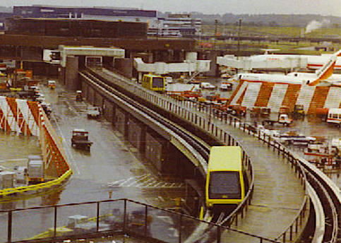 The original, and now defunct, Gatwick Airport transit system, which formerly linked the South Terminal and its Satellite.